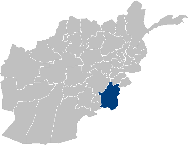 Location map for Paktika Province in Afghanistan. Original map source: Image:Afghanistan_provinces_blank.png